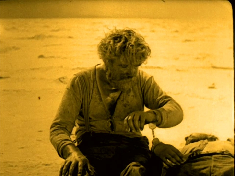 Scenography for the movie Greed. 1924.